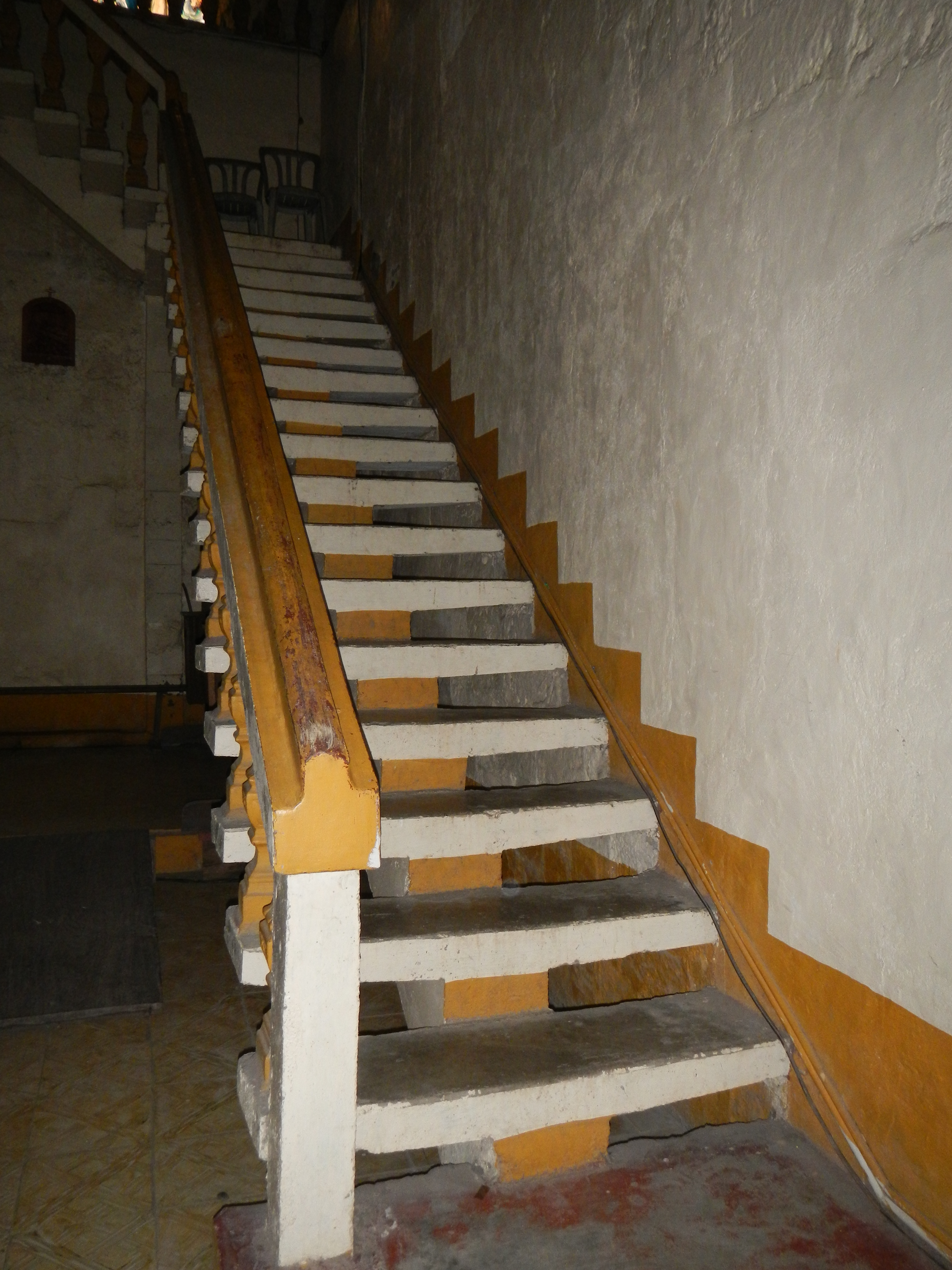 Upload Wizard photos of -- (general description of landmarks, town, Church, going to dark, sunset conditions) - the Presidencia Agno Pangasinan Town Hall Complex of Agno, Pangasinan[1] with Jose Rizal statue, and surrounded by the -accessible from - the scenery along the Pan-Philippine or Maharlika National Highway to Barangay Poblacion East, the Centro, Town Proper and downtown where one sees the being contructed Junction, Intersection jeep, tricyle and bus stop - Town Plaza, Park beside the Agno Bridge now named - Don Marcelo Nagal, Sr. formerly named Don Angel Sison Bridge and over the enchanting Balincaging River - towards the Presidencia Agno Pangasinan Town Hall Complex beside it is the Saint Catherine de Alexandria Parish Church of Agno which belongs to the Roman Catholic Diocese of Alaminos [2] 2408 Pangasinan, Philippines Titular: St. Catherine of Alexandria, Nov. 25 Parish Priest: Father Bayani M. Liguid.Vicariate of the Divine Savior Vicar Forane: Father Eduardo E. Inacay Zamora st. cor. Burgos st. beside the Auditorium Covered Manang Letty's Park Court Police Station and Philippine Independent Church and United Methodist Church.